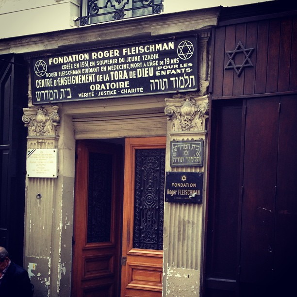 Talmud Torah Roger Fleischmann Paris.